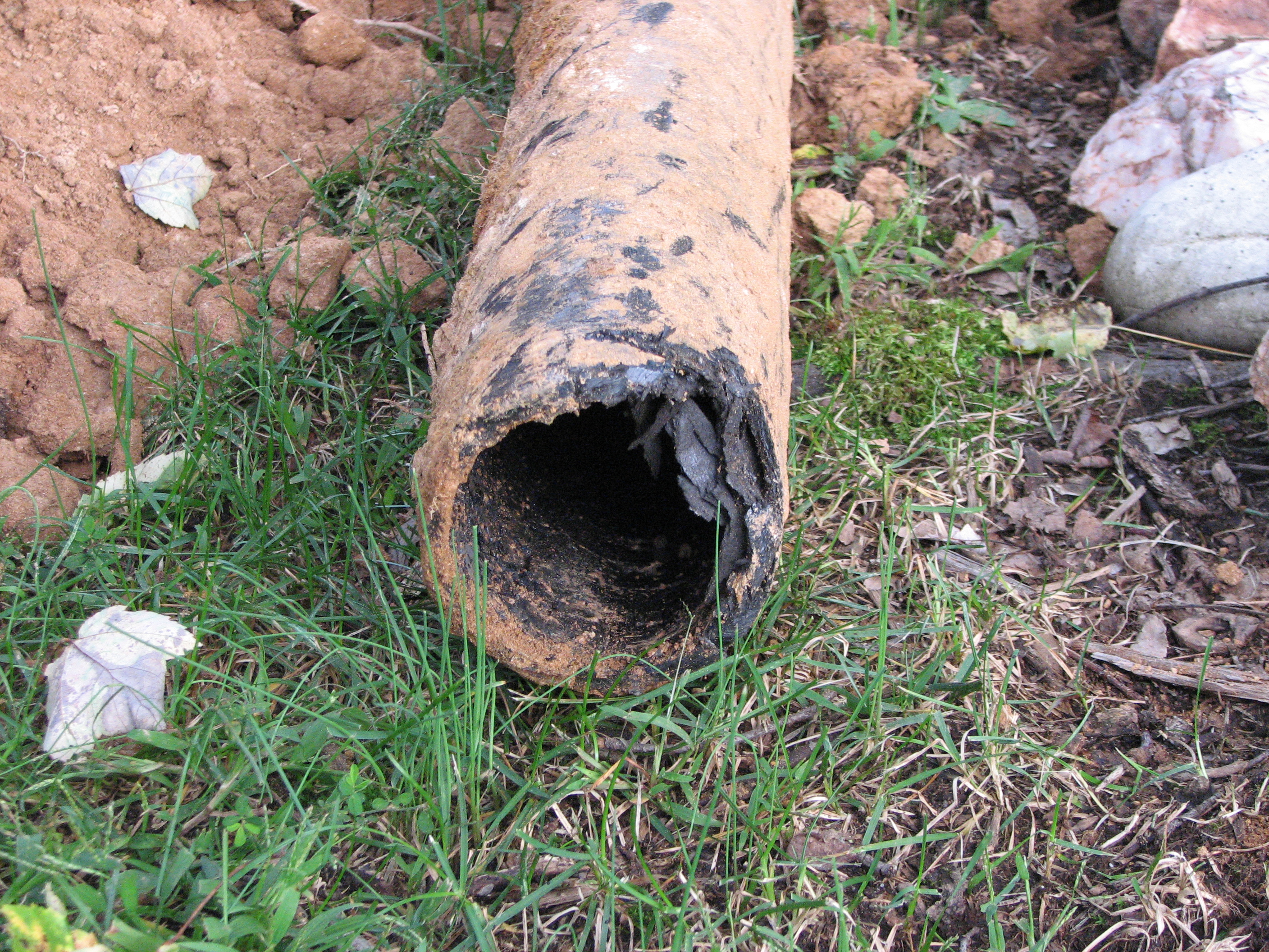 A section of Orangeburg pipe used as a sewer pipe